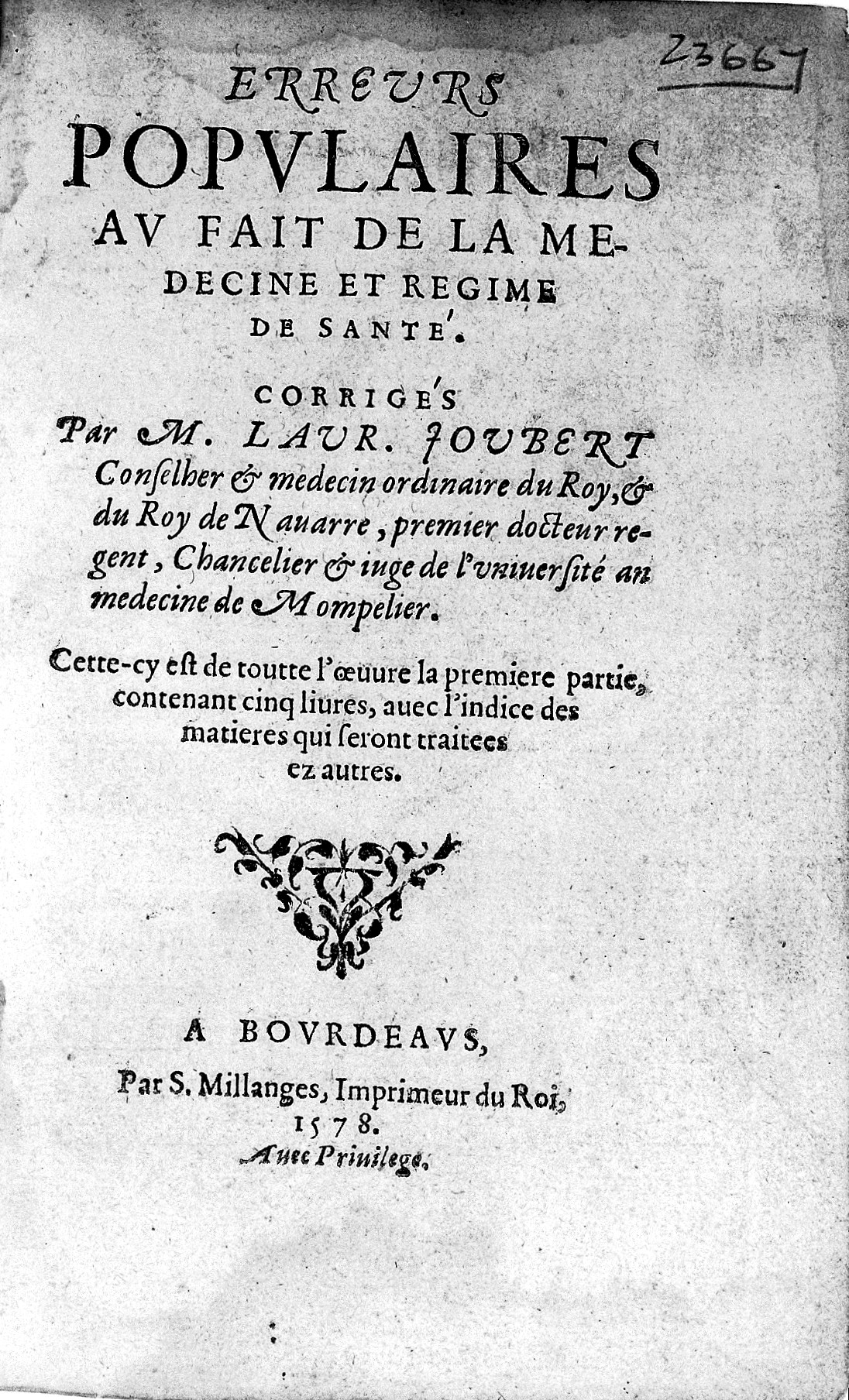 Title page Rare Books Keywords: Laurent Joubert